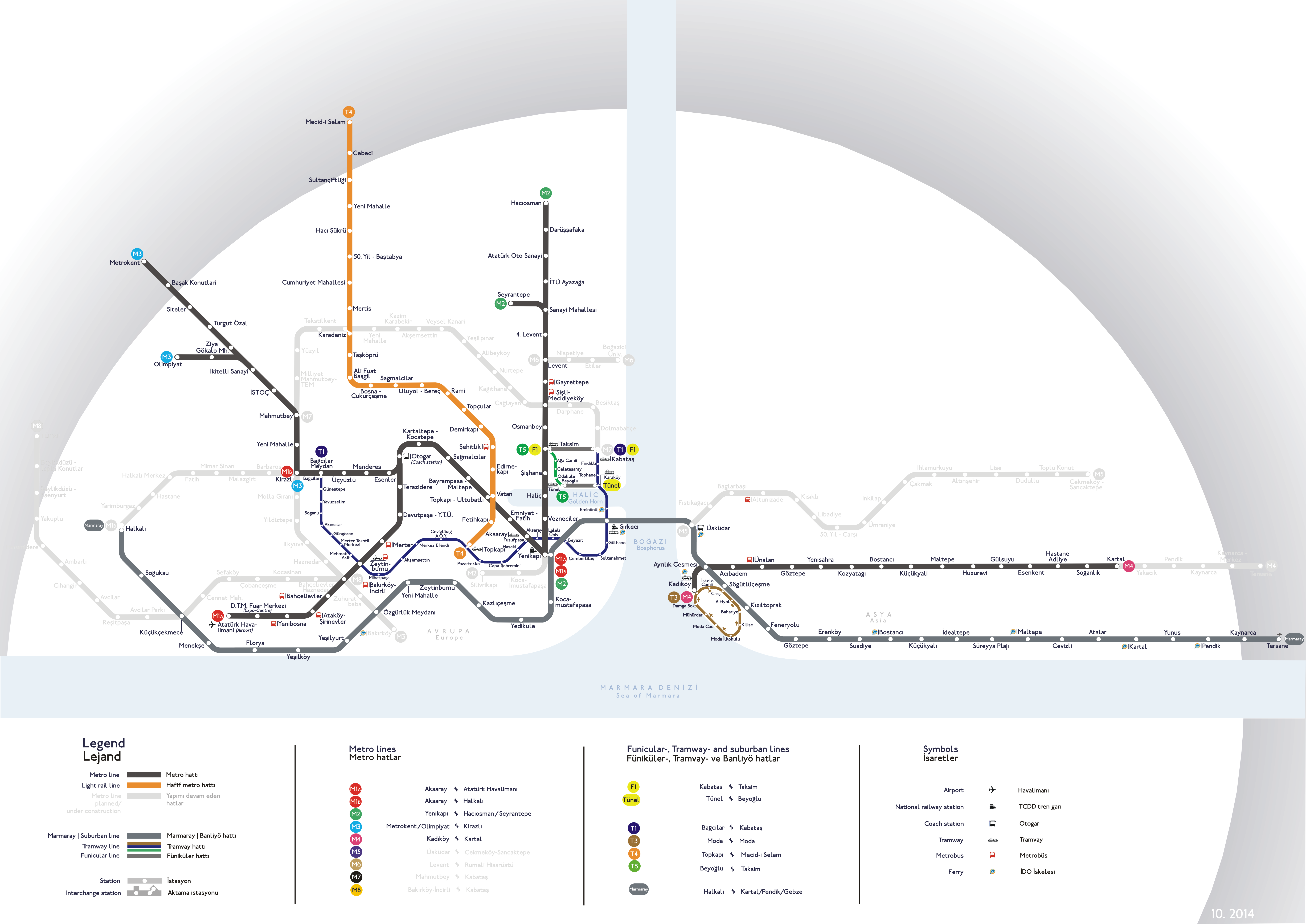 Map of Hafif Metro line T4 Istanbul Istanbul LRT Stadtbahn Istanbul